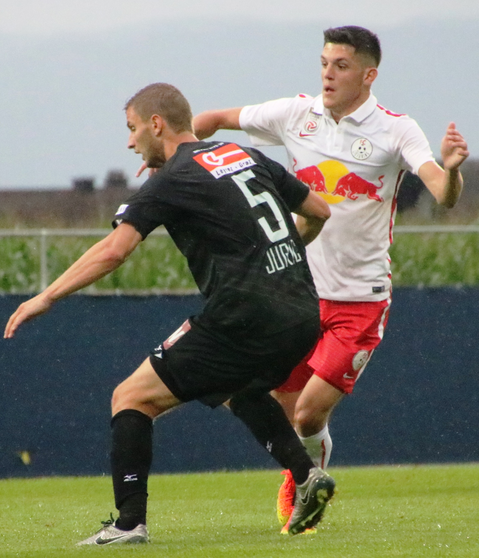 league match Austria 2nd league